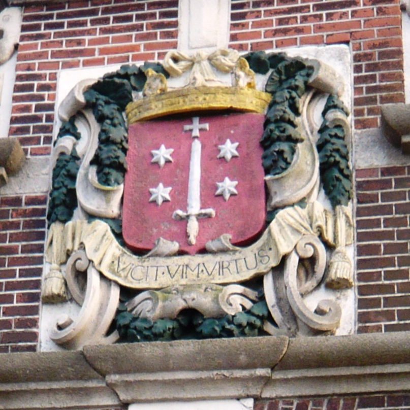 Gable stone with Haarlem motto "Vicit Vim Virtus", or Virtue Conquers Force. 91″ N, 4° 37′ 53″ E